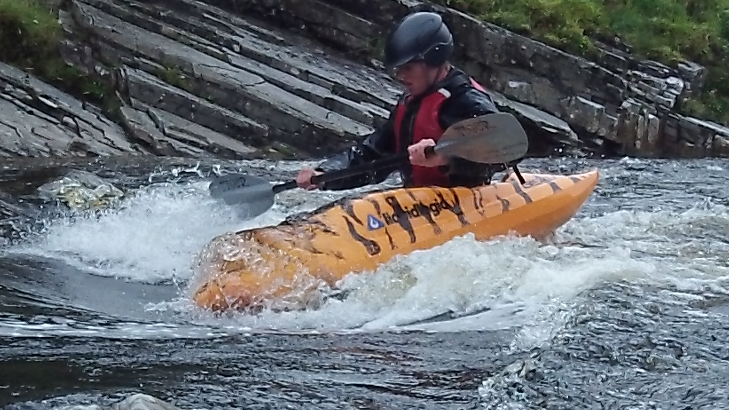 The paddler is with the University of St Andrews Canoe club, paddling a liquid logic biscuit